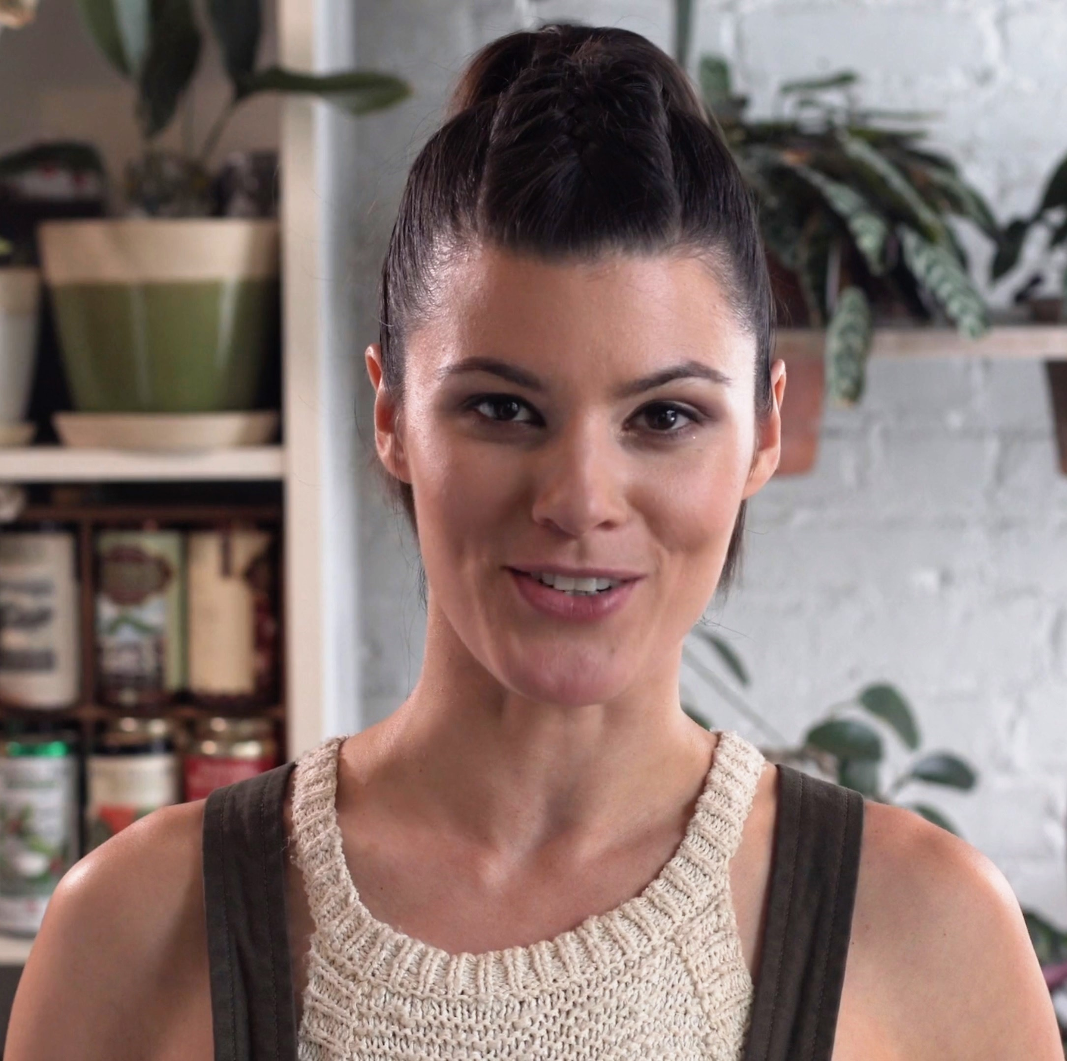 American environmentalist, model, and author Summer Rayne Oakes discussing her Houseplant Masterclass in 2018. The Houseplant Masterclass is an online audio-visual course and experience to help you demystify plant care and learn how to have a relationship with your plants. More information here: kck.st/2G7dnbj